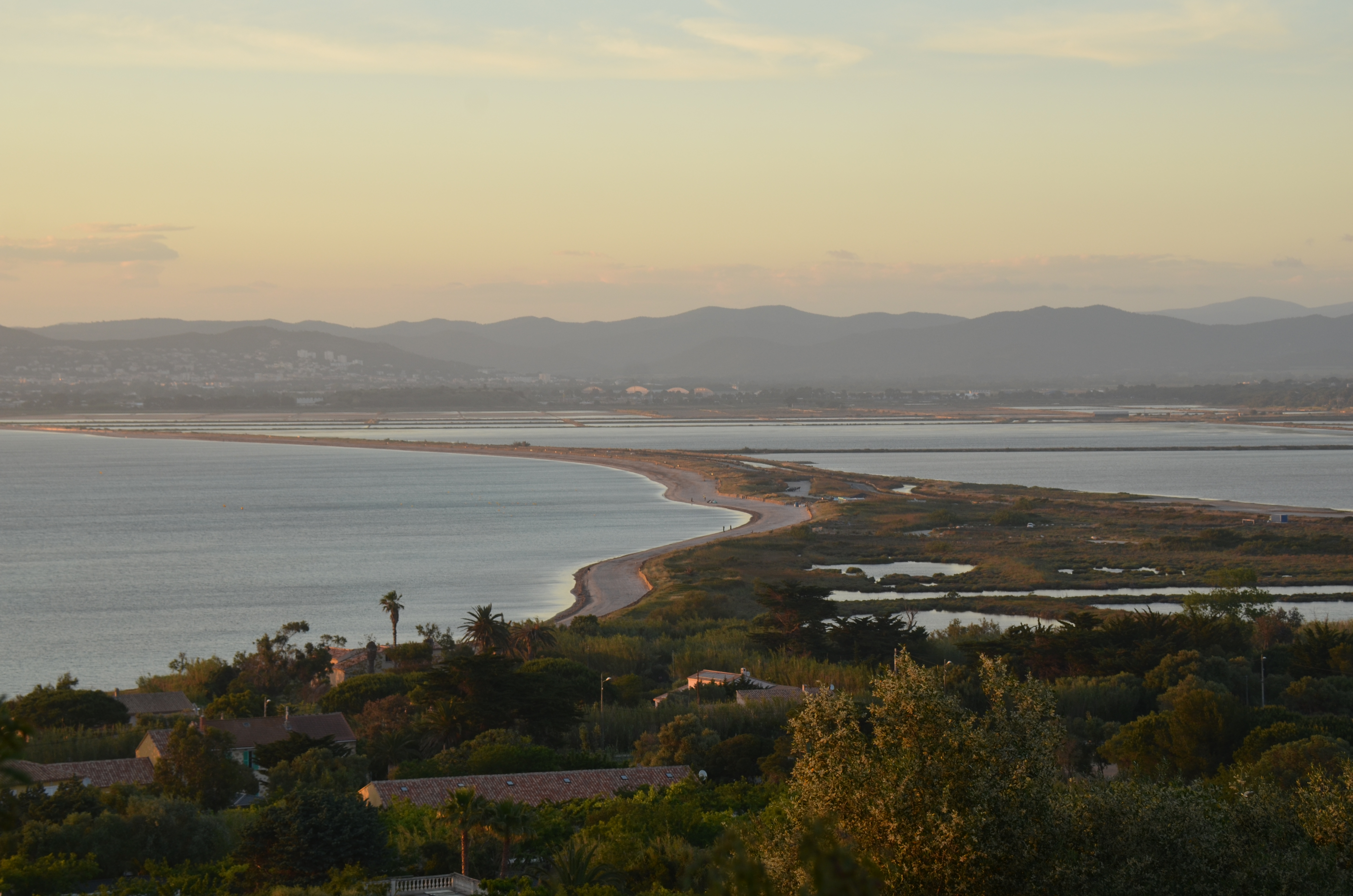 Panorama view of the penninsula de Giens/Hyeres